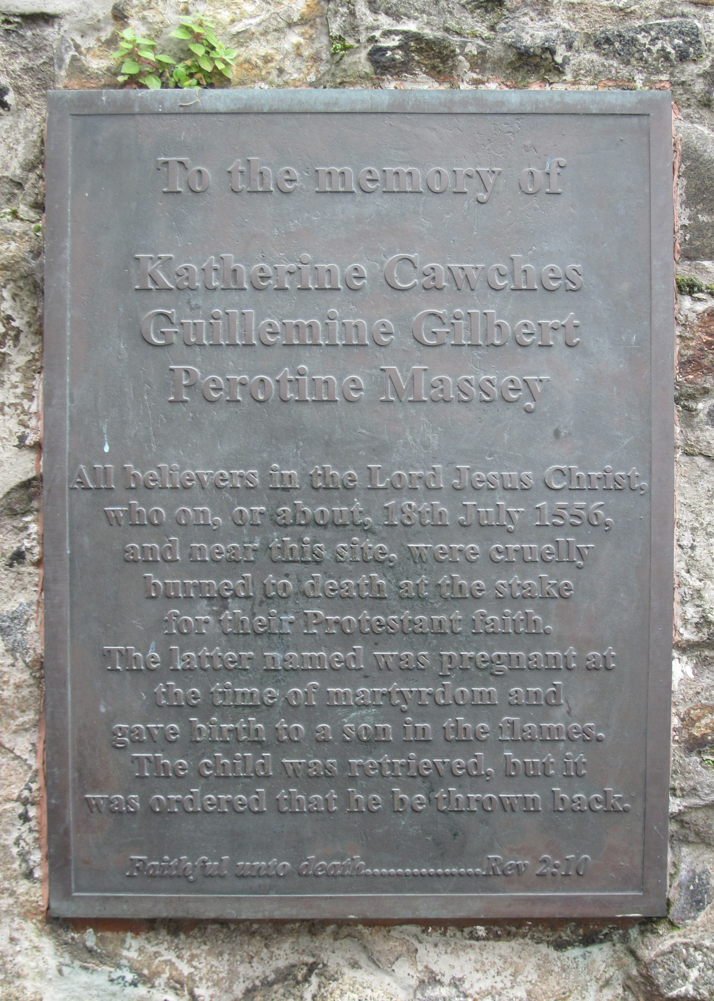 Saint Peter Port, Guernsey Nrf: Saint Pierre Port (Guernési)